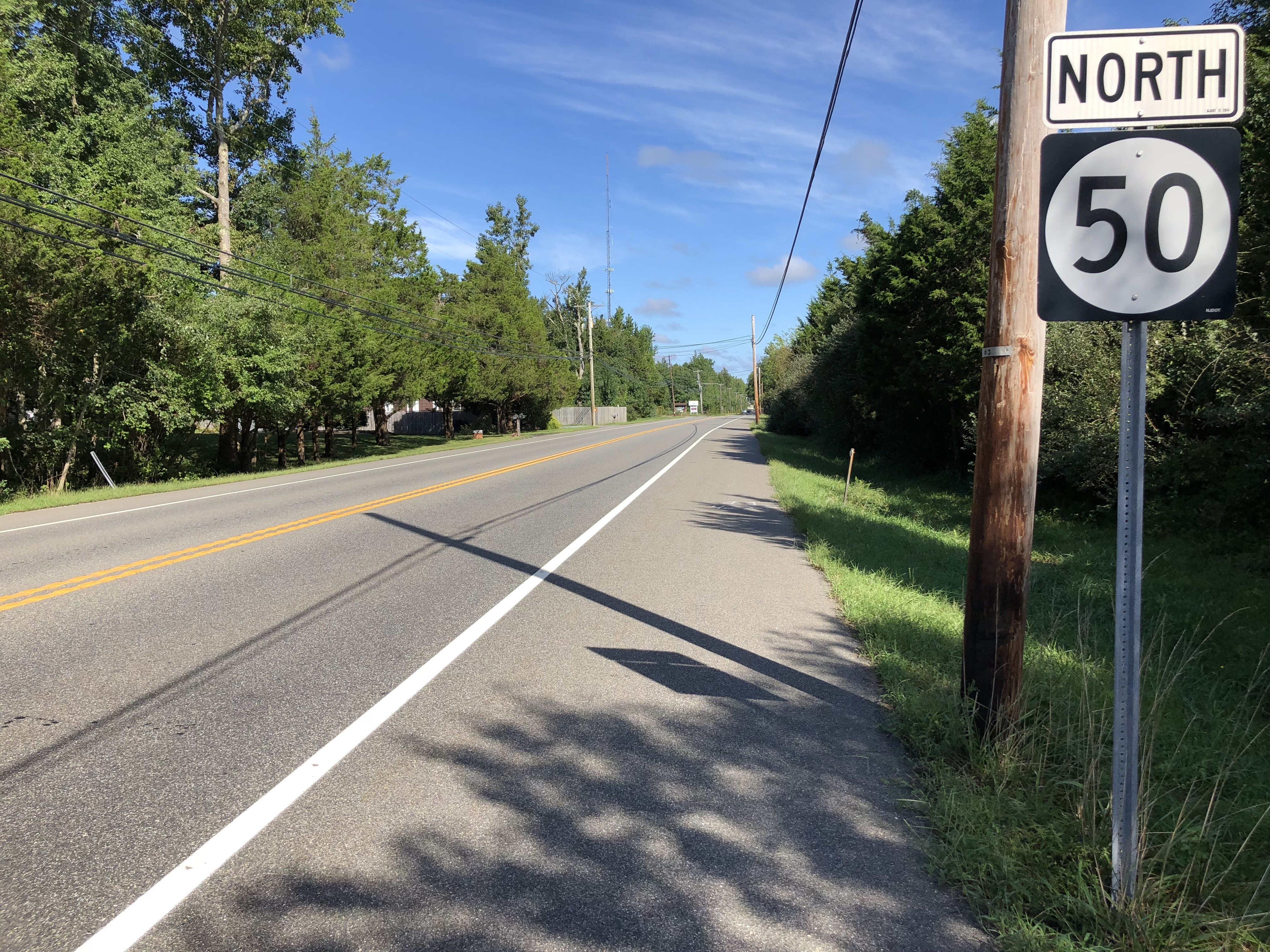 View north along New Jersey State Route 50 and Atlantic County Route 557 just north of Atlantic County Route 648 (Head of River Road) in Corbin City, Atlantic County, New Jersey